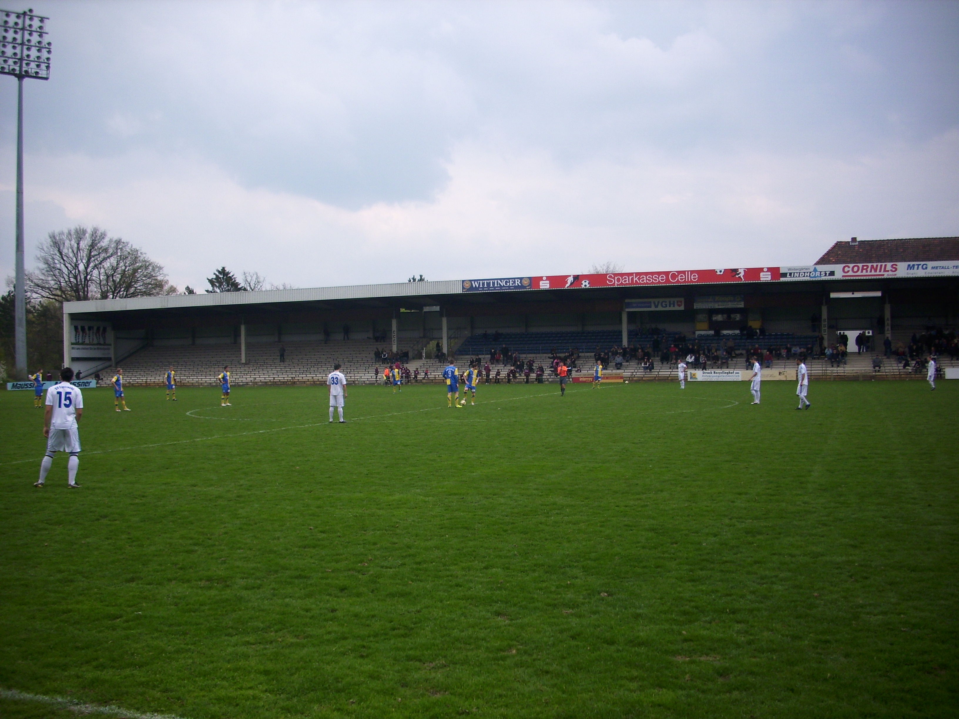 Field Günther-Volker-Stadium, Celle, Lower-Saxony, Germany.